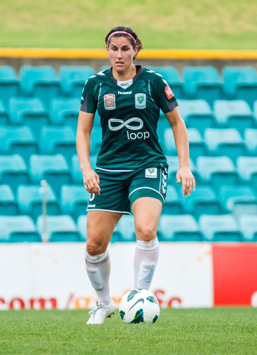 Caitlin Munoz playing for Canberra United FC in the 2012/13 W-League against Sydney FC.